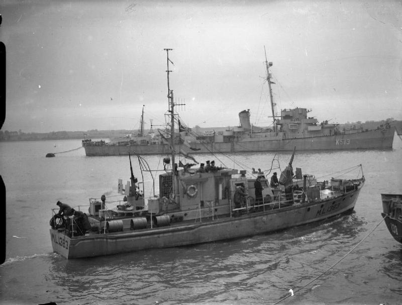 IWM caption : "The Royal Navy during the Second World War. Harbour Defence Motor Launch No 1383 leaving harbour at Harwich". Comment : In the background is the Captain-class frigate HMS Curzon (K513).